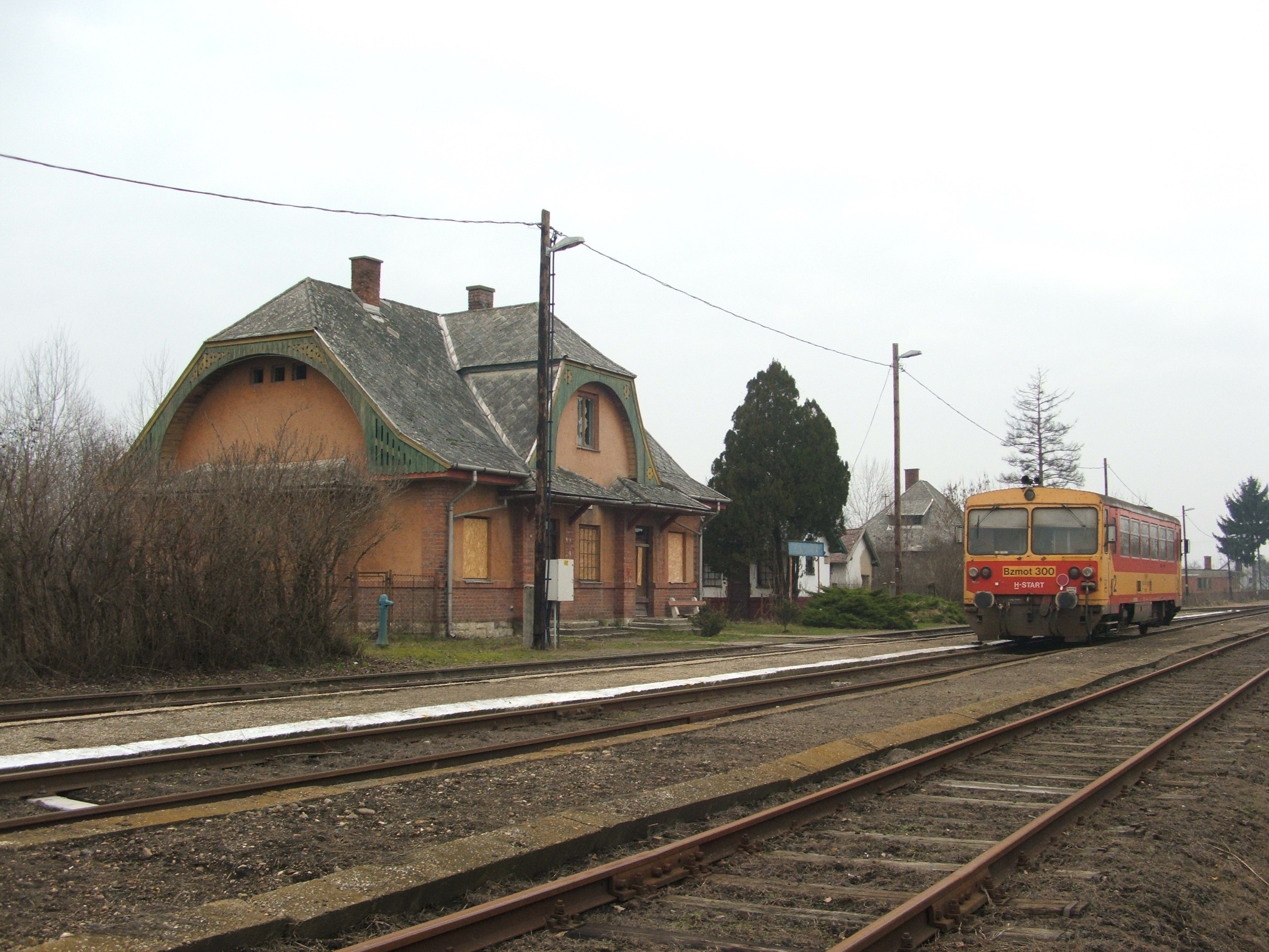 Bzmot at Zajta station, one day before the closure of the Fehérgyarmat-Zajta branch.